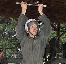 NASA Astronaut Thomas Marshburn during water survival training at Pensacola Naval Air Station. From NASA photo in public domain.